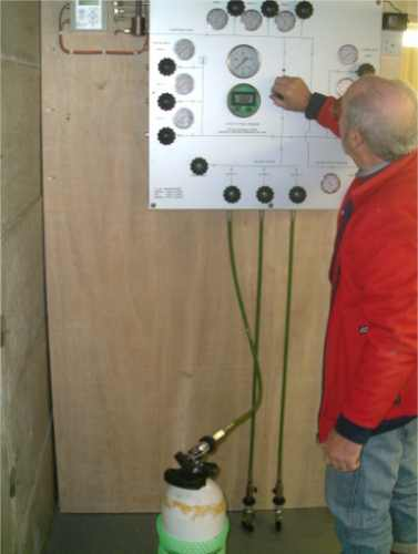 I photographed this myself